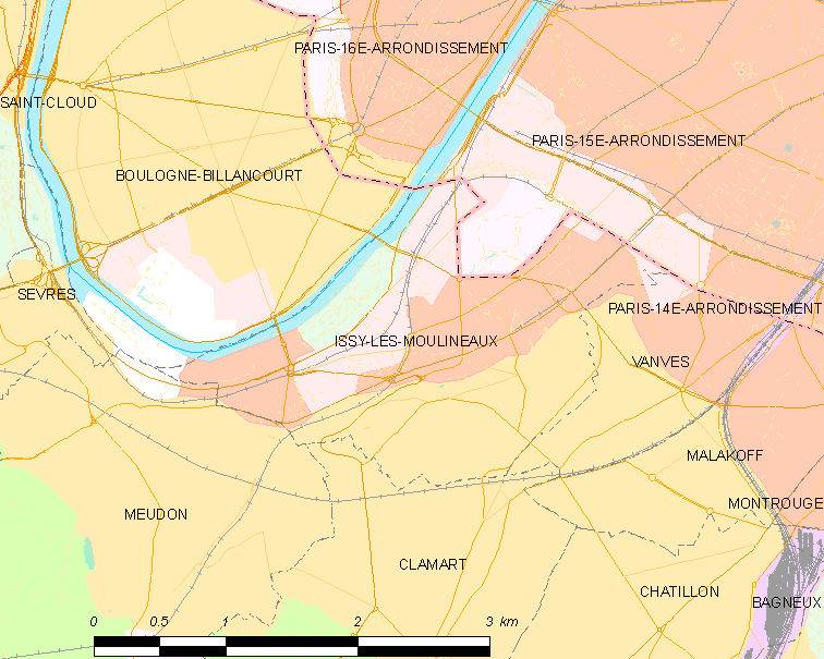 Map of French municipality Issy-les-Moulineaux